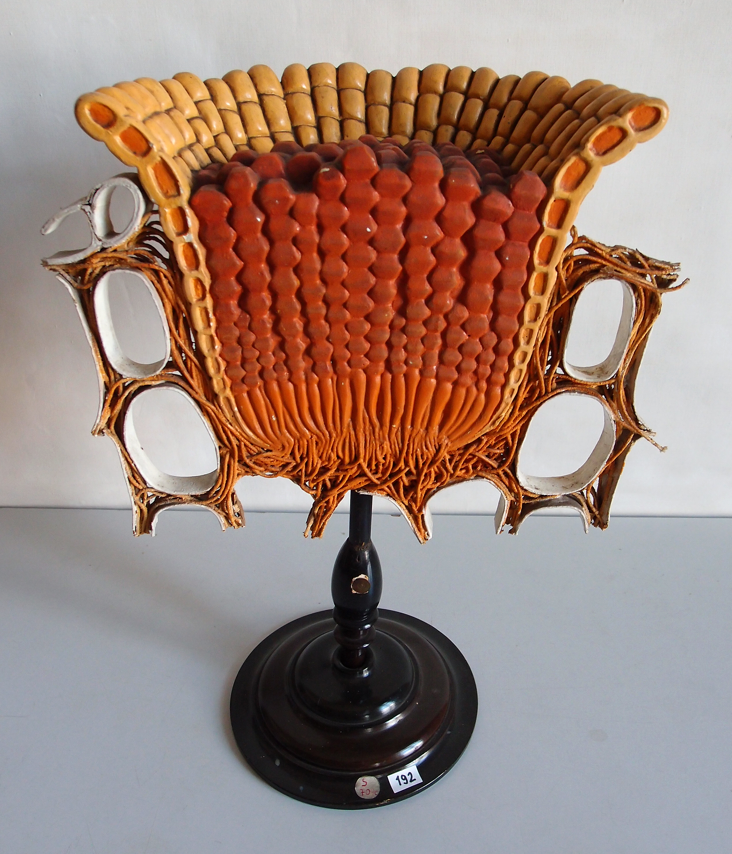 Model from the collection of the Botanical Museum in Greifswald, Germany. .see also for more information on the models